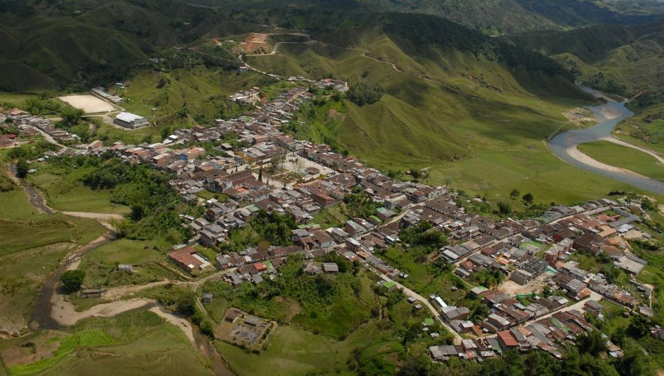 Panoramic of Municipality of Alejandria-Antioquia-Colombia